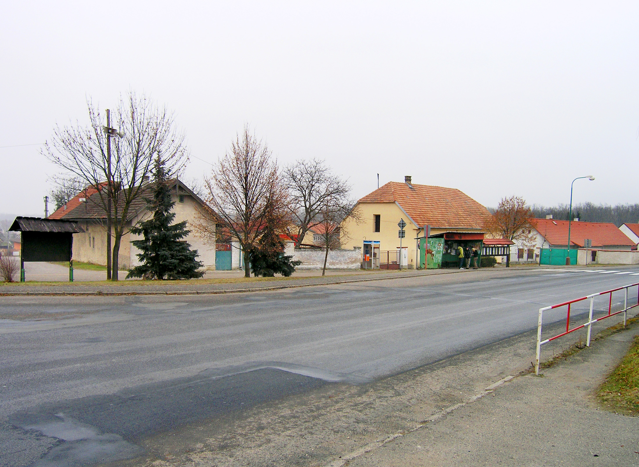 Common in Velenka, Czech Republic